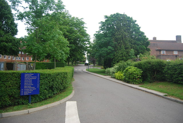 Cranleigh School